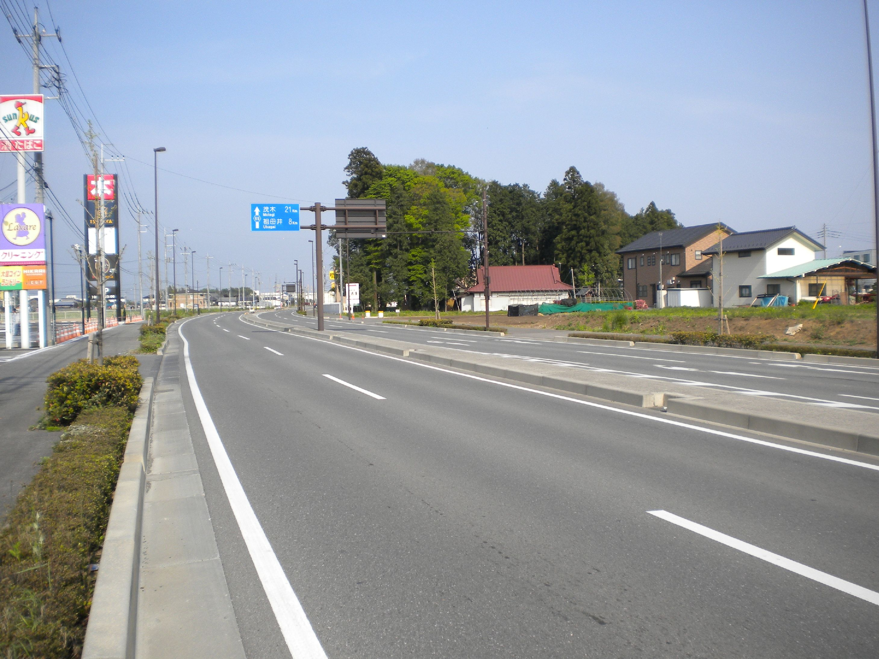 The Tochigi Prefectural Road Route 69 in Utsunomiya City